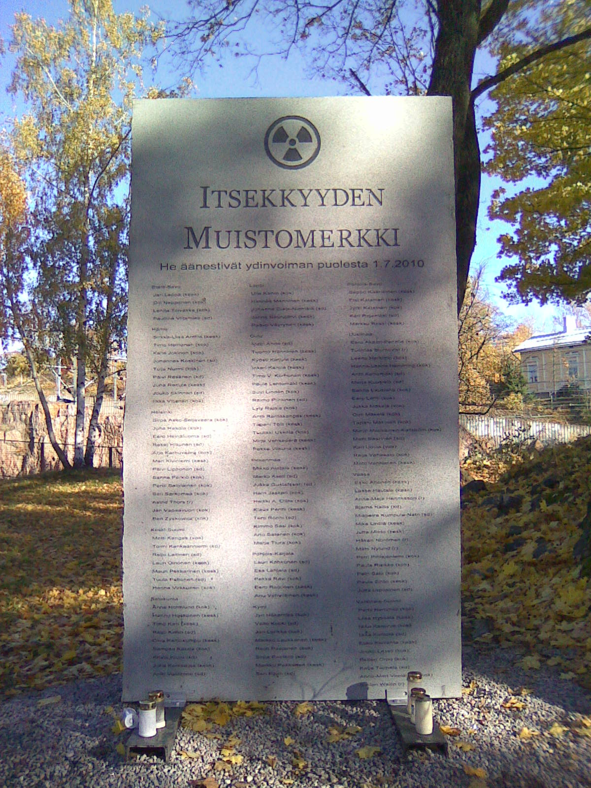 A memorial listing the names of all parliamentarians who voted for the nuclear power reactors on 2010-07-01, seen near Töölönlahti, Helsinki.